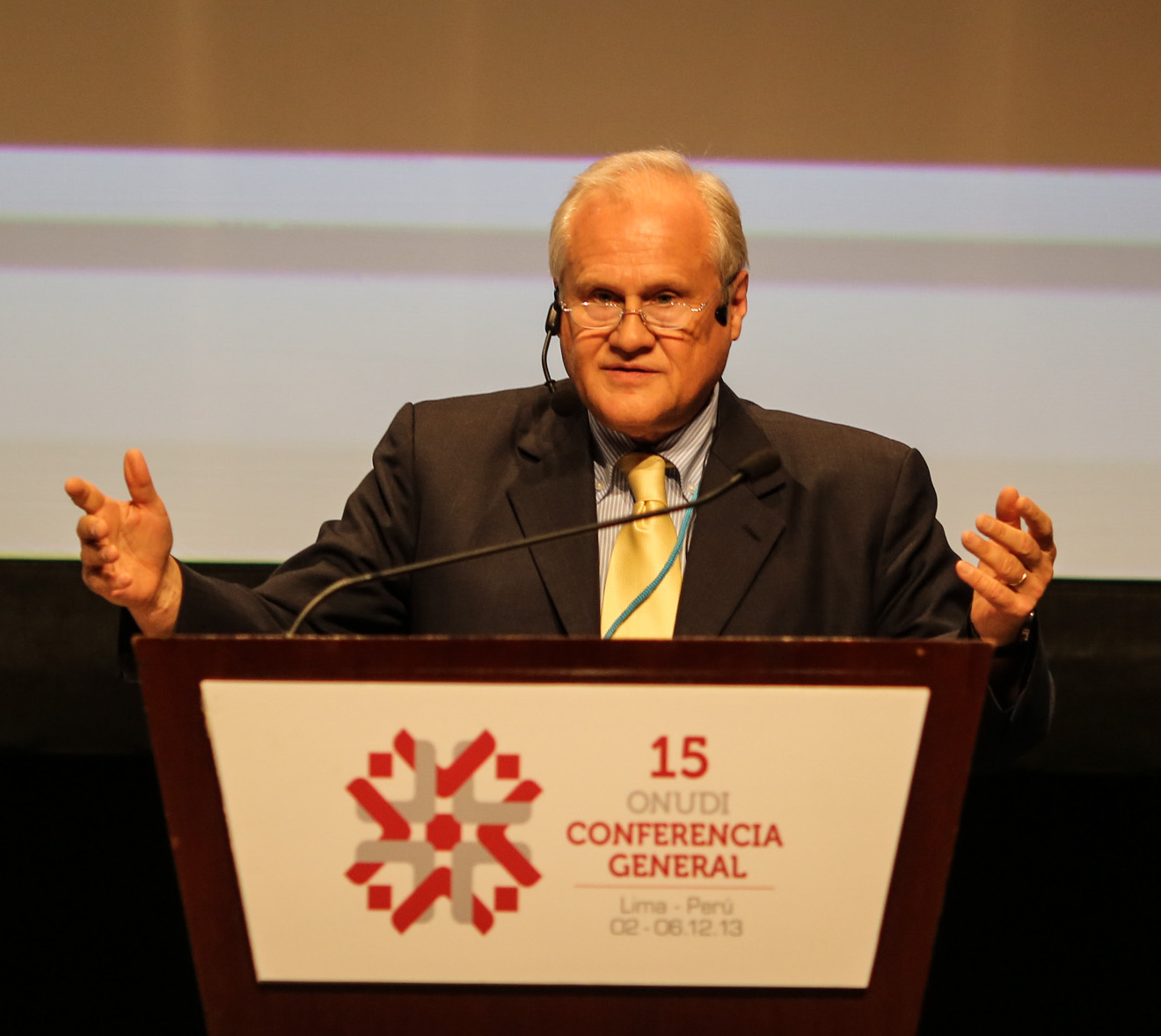 15 UNIDO GENERAL CONFERENCE INTERREGIONAL DEBATE 6: Empowering Women: Fostering Entrepreneurship Martin Sajdik Ambassador and Permanent Representative of the Republic of Austria to the United Nations UNIDO-15 Unido General Conference in Lima, Lima, 4 December 2013.